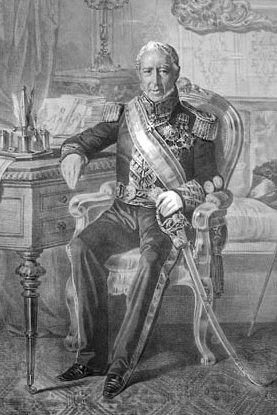 pascual linan